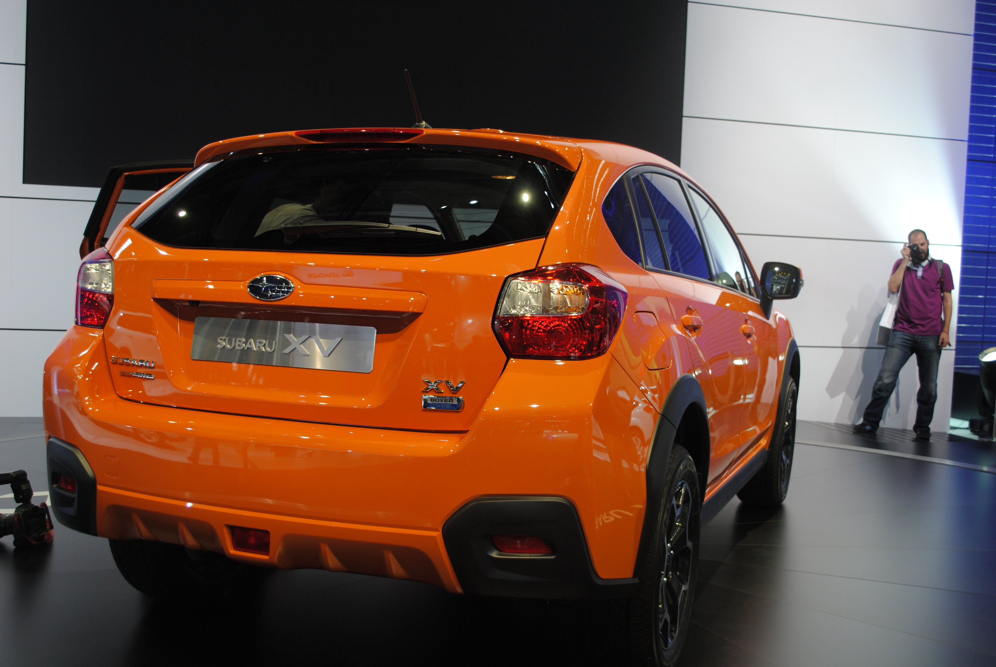 More photos and info